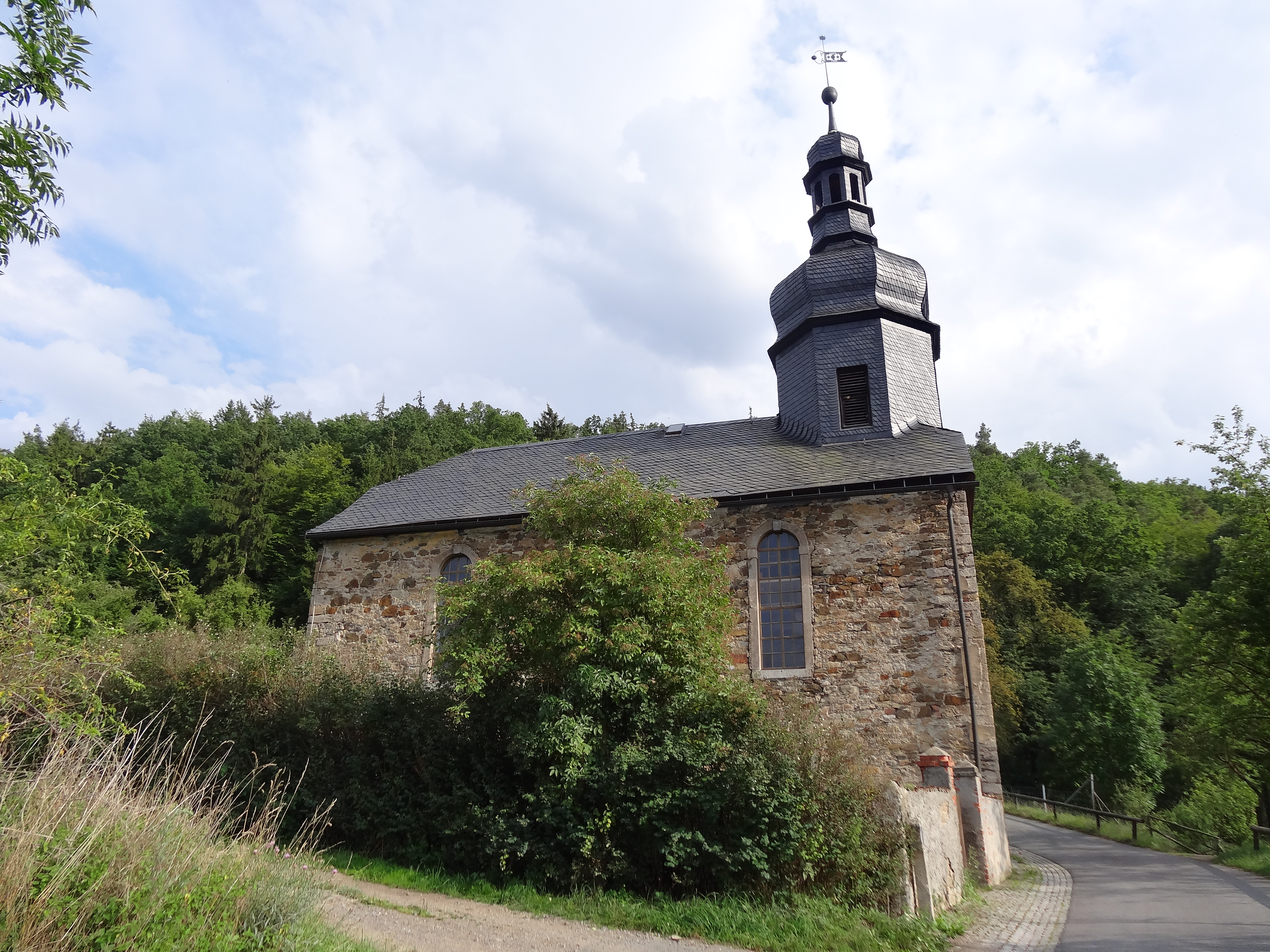 Church in Breternitz, Kaulsdorf, Thuringia, Germany